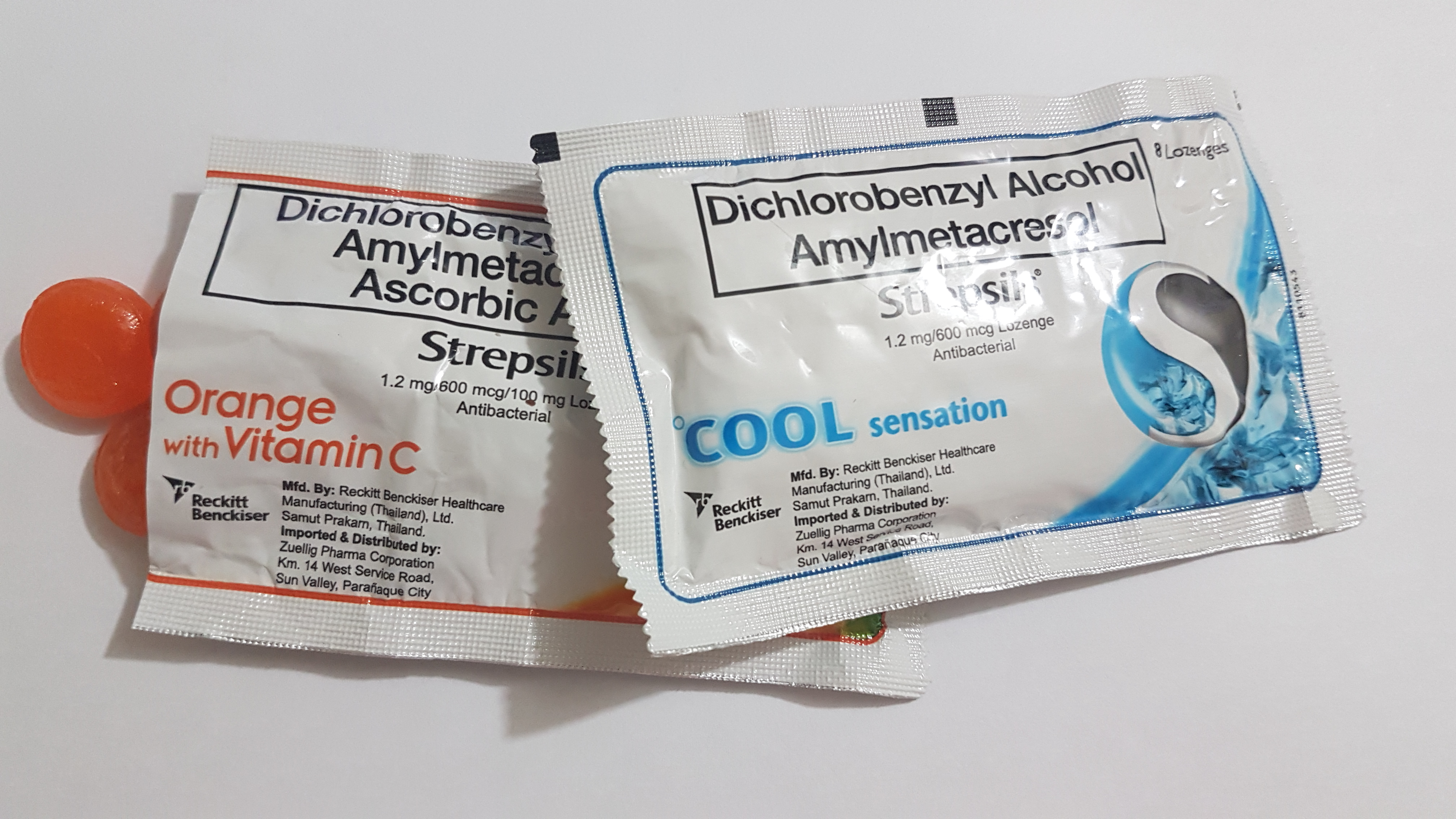 Two eight packs of Strepsils lozenges. The Vitamin C-100 pack is slightly open and three orange lozenges are spilling out of it, while the top Cool pack is closed.